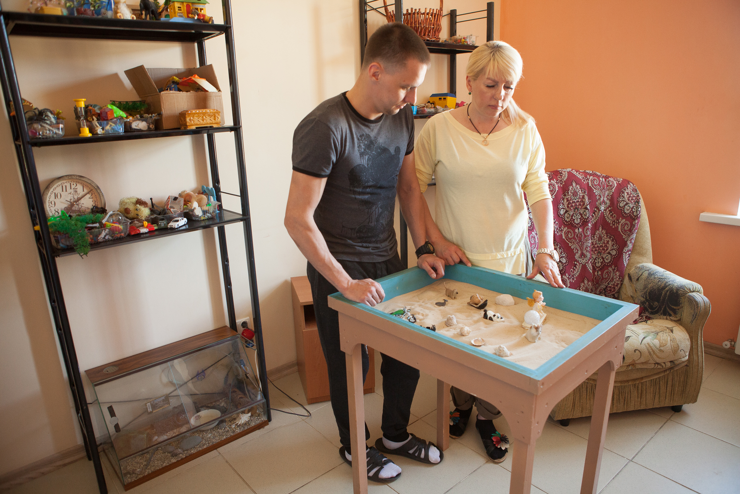 Sandplay therapy in work with dependent. It is used as an element of drug treatment in a rehabilitation center for drug addicts and alcoholics